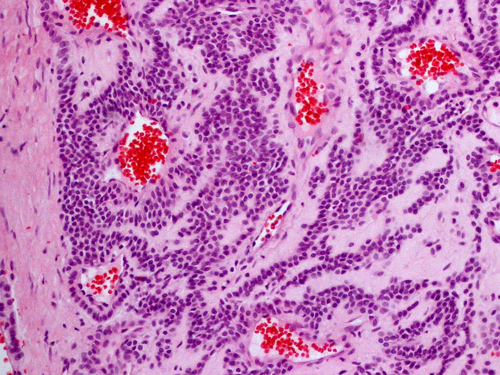 Glomus tumor (glomangioma type)